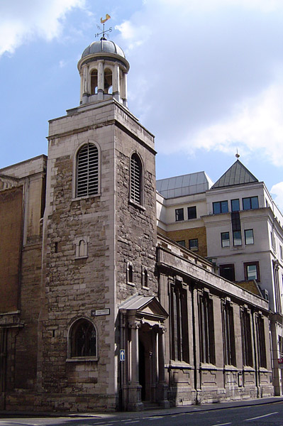 Exterior of St Katherine Cree, City of London